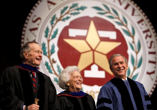 President George W. Bush smiles with his parents, former President George H.W. Bush, left, and former first lady Barbara Bush following his commencement address at Texas A&M University's winter convocation Friday, Dec. 12, 2008, in College Station, Texas. Commencement Speech